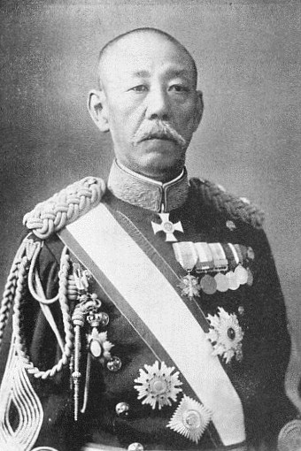 Osahito Yamanouchi